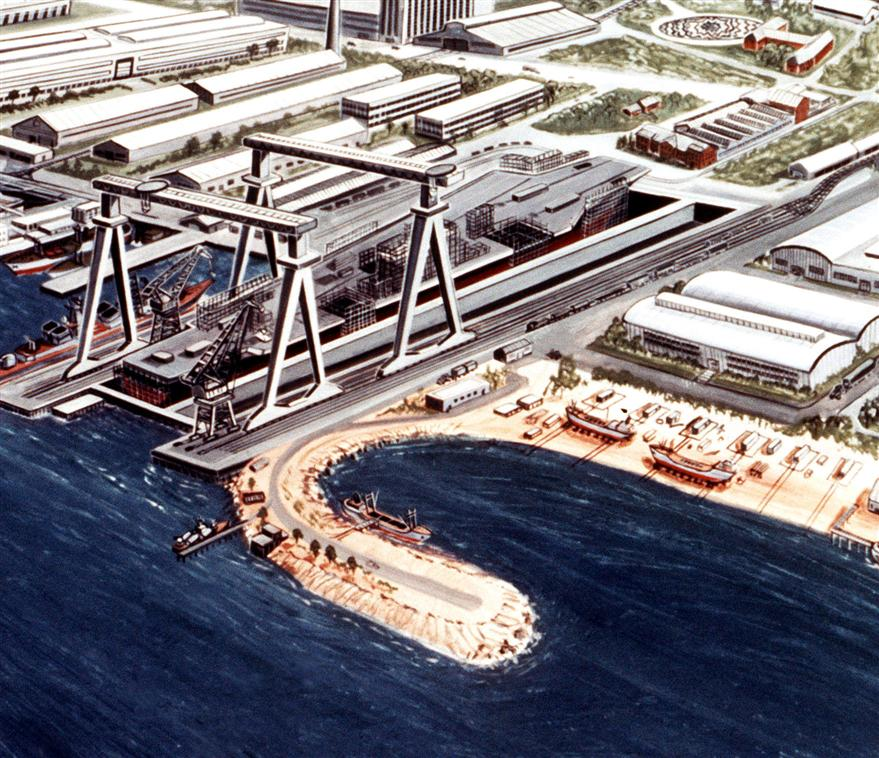 Original caption: Released to Public. Nuclear-powered aircraft carrier under construction at Nikolayev Shipyard - now Black Sea Shipyard -. Courtesy of Soviet Military Power, 1984. Photo No. 91, pages 88 and 89. Dated May 23, en:1984. Source: dodmedia.osd.mil.